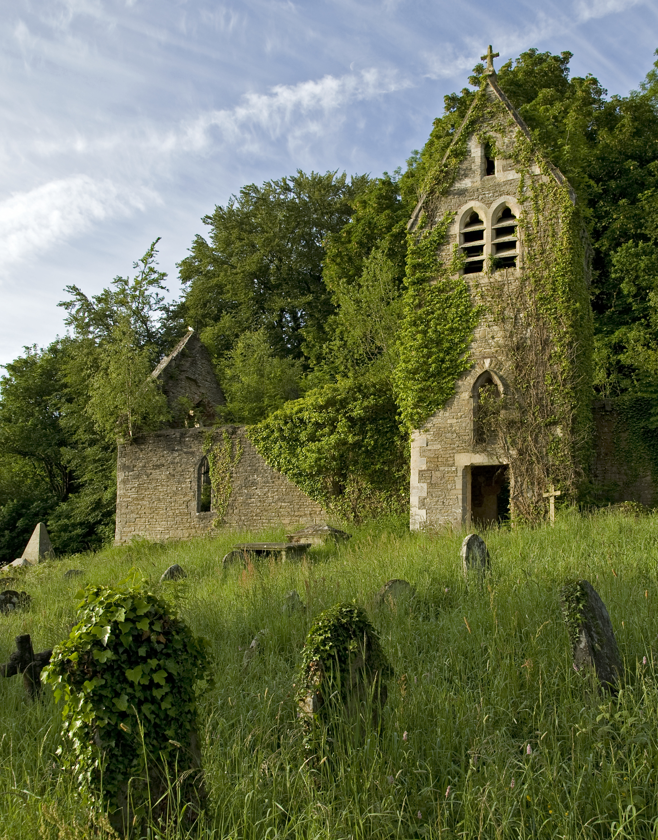 CHAPEL HILL, St. Mary (1863-1868) Monmouthshire Parish of TINTERN PARVA, Llandaff diocese ICBS 06254 Grant Reason: Enlargement Outcome: Approved Professionals PRICHARD, John: b. 1817 - d. 1886 of London and Llandaff (Architect) Notes: For new vestry, rebuilding of much of south wall, reseating and repairs Minutes: Volume 18 pages 105,242, Volume 19 page 169